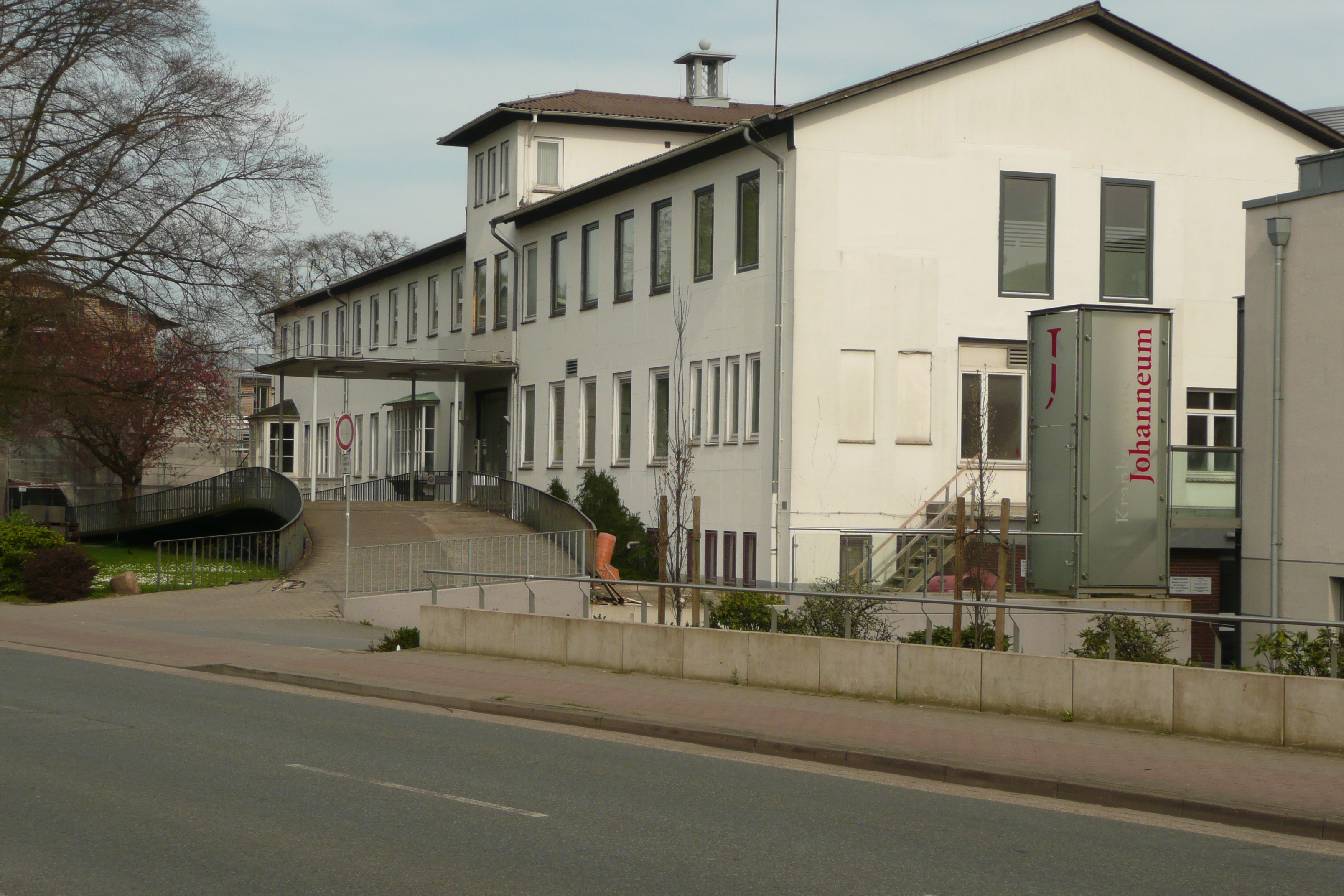 Old entrance of the hospital "Johanneum" in Wildeshausen